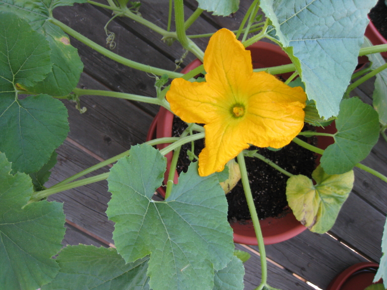 Front picture of a male spaghetti squash flower.